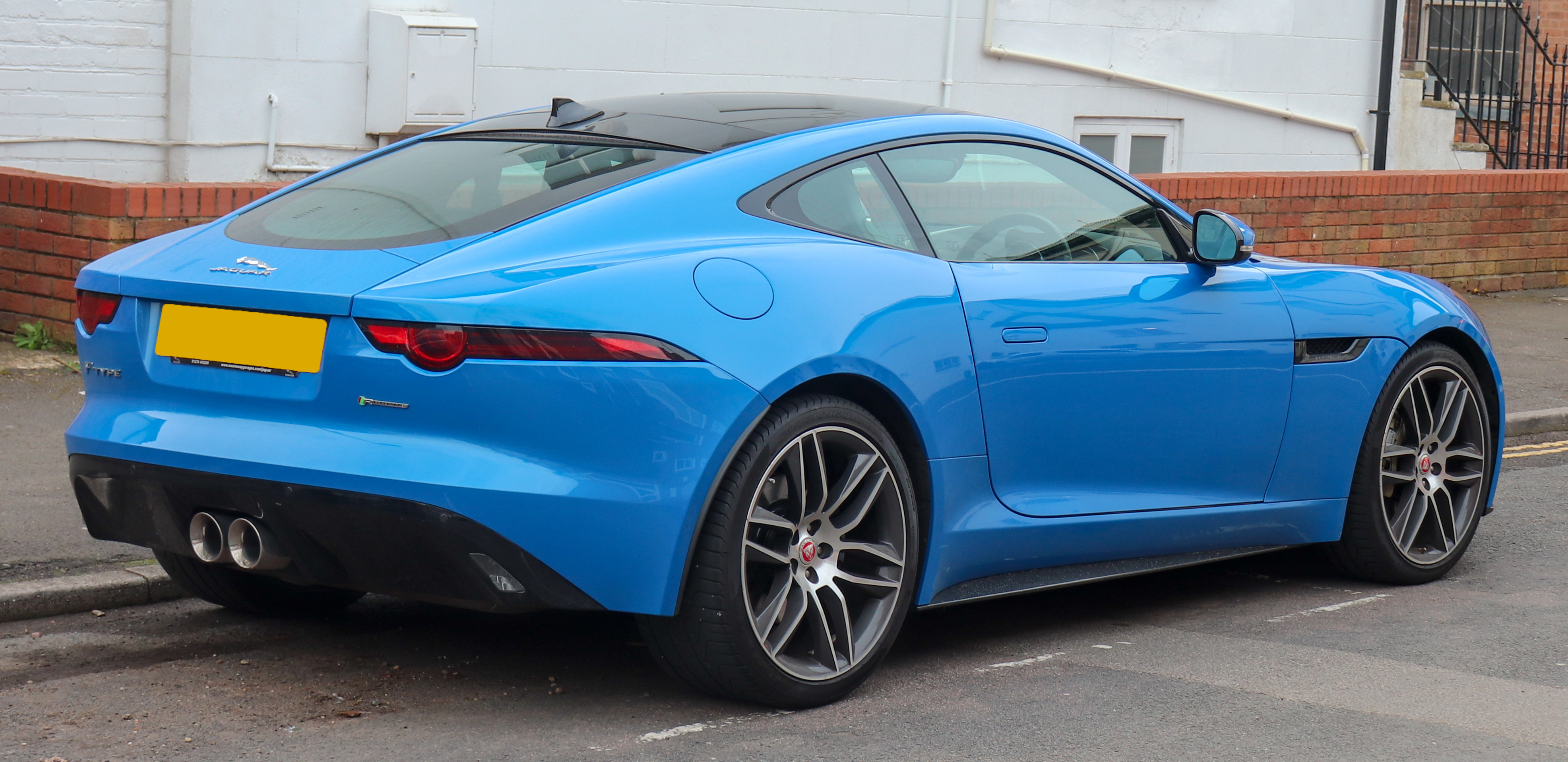 2017 Jaguar F-Type V6 R-Dynamic Automatic 3.0 Rear Taken in Warwick